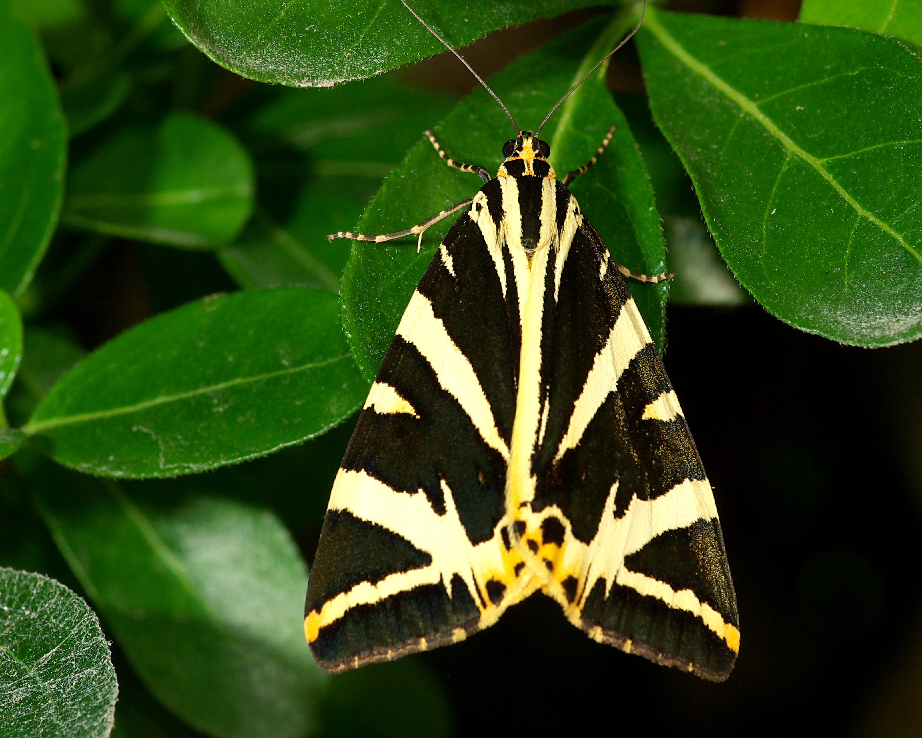 Euplagia quadripunctaria taken in Normandie Calvados france